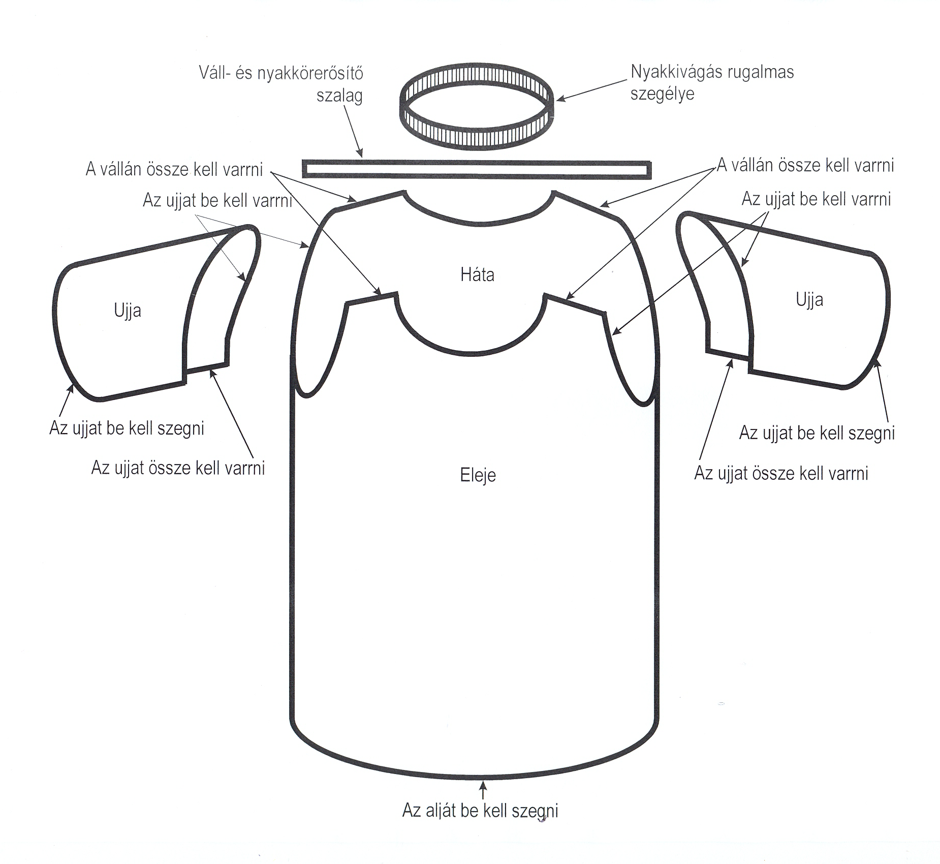 This construction does not need side-seam, but the shoulders, sleeves and the collarette as well as the reinforceing tape across the shoulders and the back part of the neckline have to be sewn.